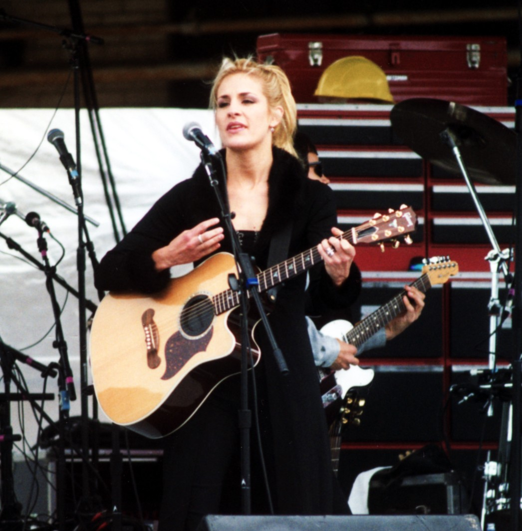 The Dixie Chicks at the Country For Kids concert in 1998 in Stafford, VA